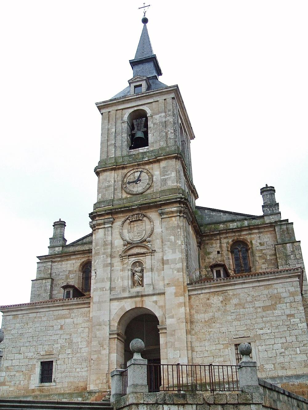 Colegiata de San Pedro, Lerma (Burgos, Castilla y León, España)